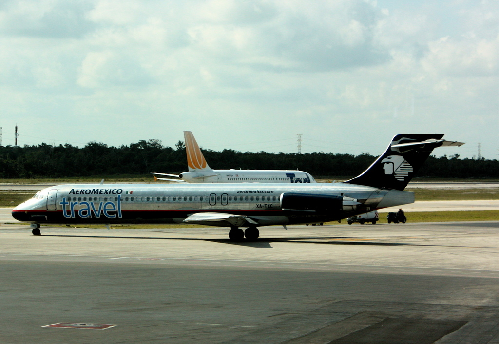 AeroMexico Travel MD-87 at CUN.